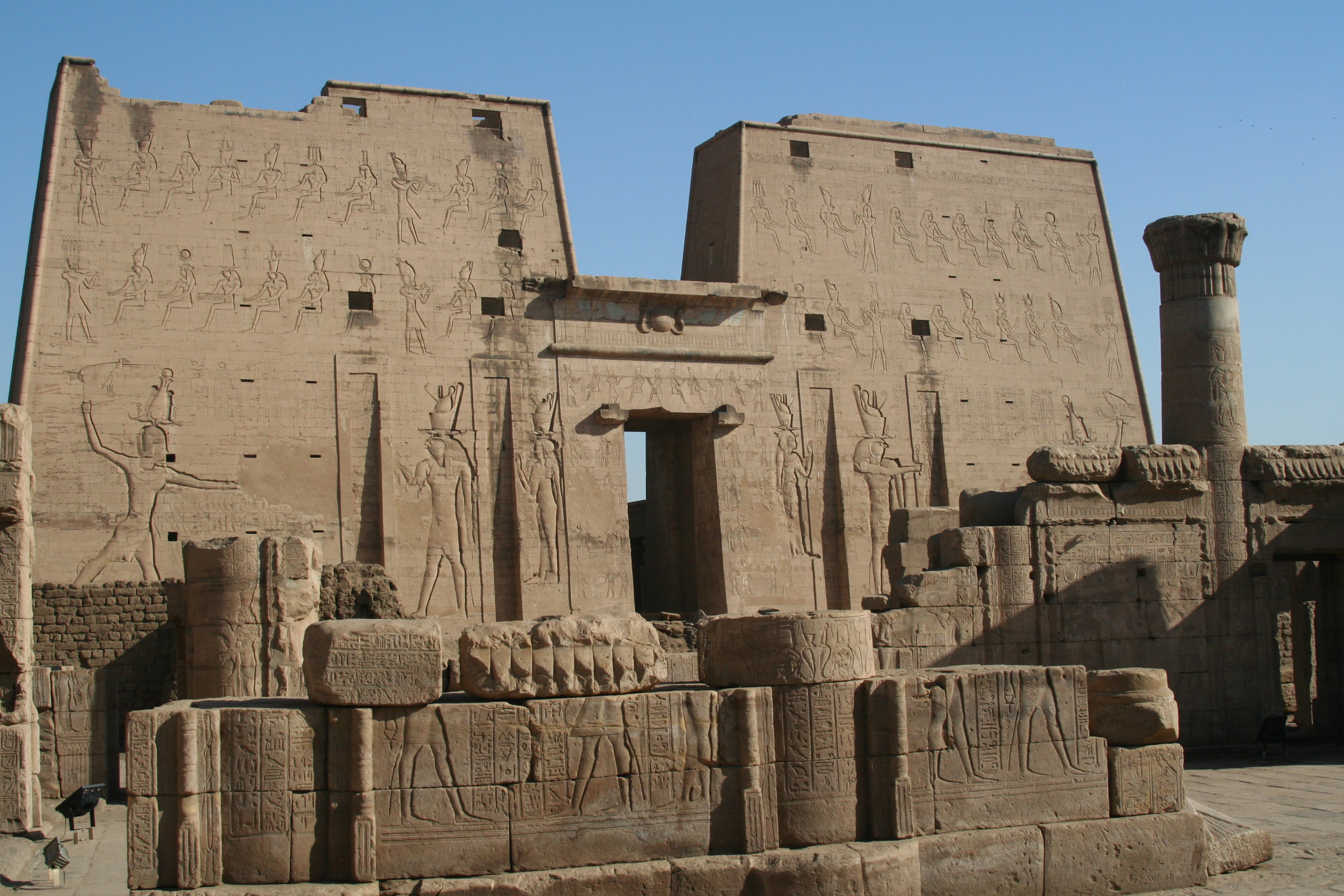 Approach and first pylon - Temple of Horus @ Edfu